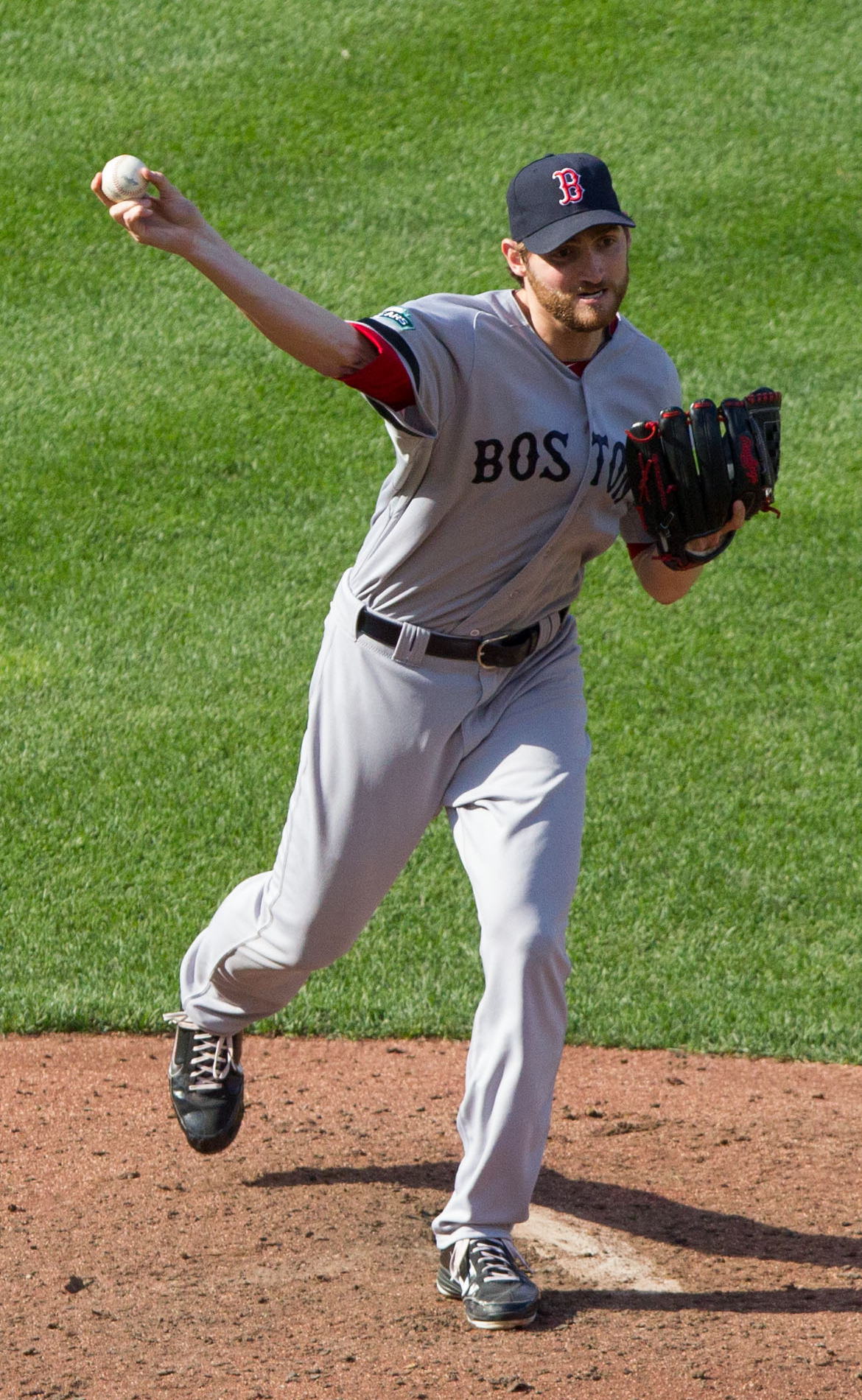 Chris Carpenter